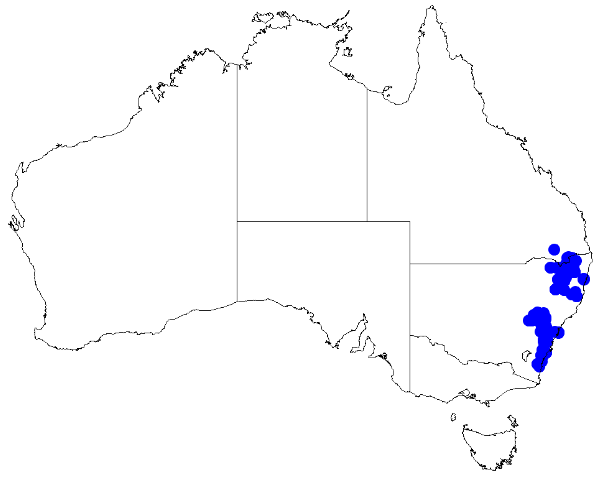 Boronia microphylla occurrence data downloaded from Australasian Virtual Herbarium 10 April 2019 using This download included all the environmental overlay fields and ALA's data checking fields including "cultivated / escapee", "outside expert range for species", "latitude is negated", "coordinates are transposed", "taxon misidentified", "habitat incorrect for species", and "suspected outlier" (711 fields). Deleting occurrences for which any of the above were true, 46 specimens with coordinates were deleted. However this did not remove all obvious spatial outliers some of which were later removed by hand. On inspection of the interactive map, the following specimens were excluded: HO4754 ("suspected outlier"), NSW 377067 ("suspected outlier"), MEL 0268244A ("coordinate precision not valid")